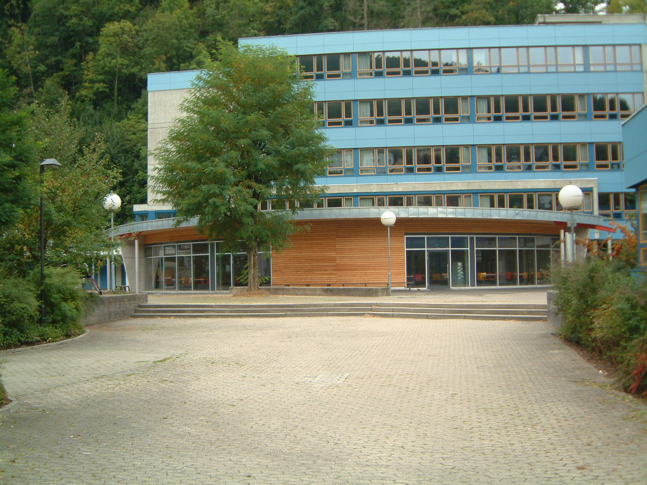 The new cafeteria of the Gymnasium Schramberg